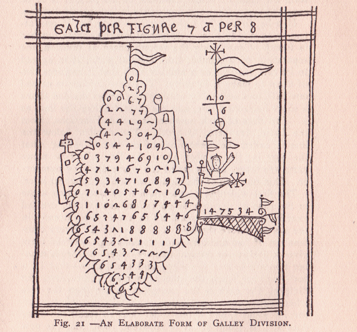 From the book, "The Science-History of the Universe" by Francis Rolt-Wheeler, Vol. 8: Pure Mathematics, Copyright 1910, The Current Literature Publishing Company, New York. This illustration is from page 51. Flickr data on 2011-08-16: Tags: vintage, book, image, illustration, drawing, public domain, copyright free, pre-1923 License: CC BY 2.0 User: perpetualplum Sue Clark